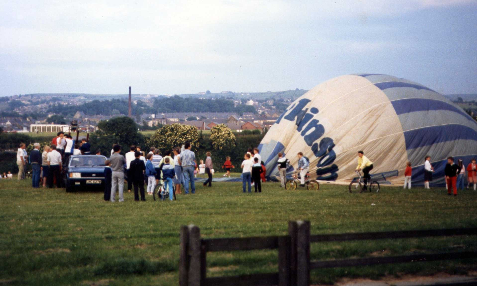 Hot Air Balloon lands infront of Wordsworth Close, Oswaldtwistle in 1988. White Ash field and central Oswaldtwistle can be seen in the background. Author: Caroline Sparkes Location: Oswaldtwistle Source: Personal photograph taken by Author